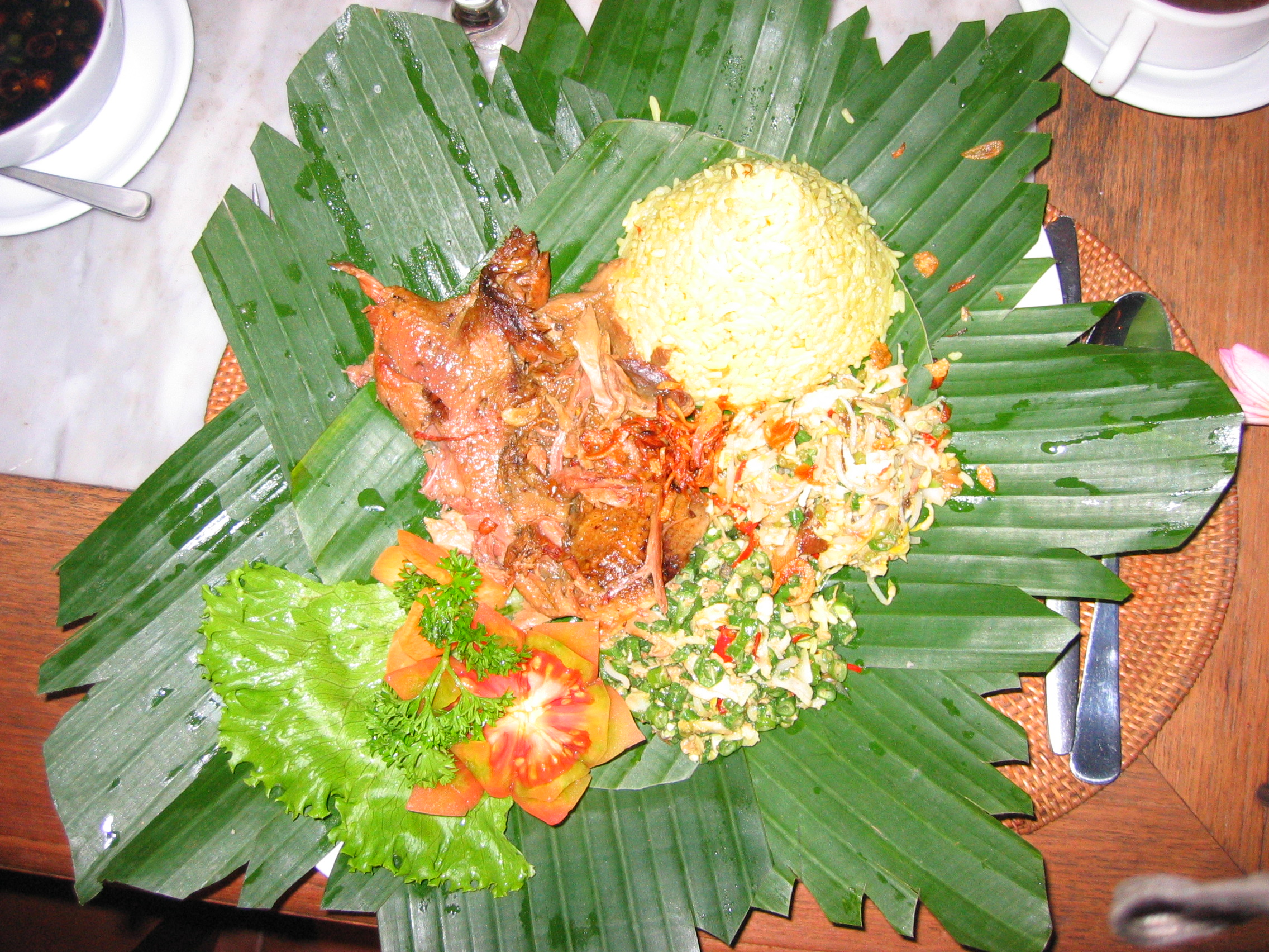 traditional balinese dish-- bebek tutu (smoked duck).